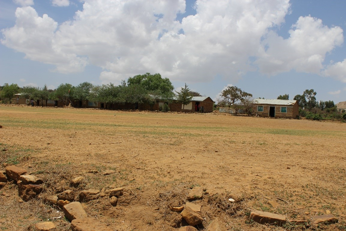 Amanit school